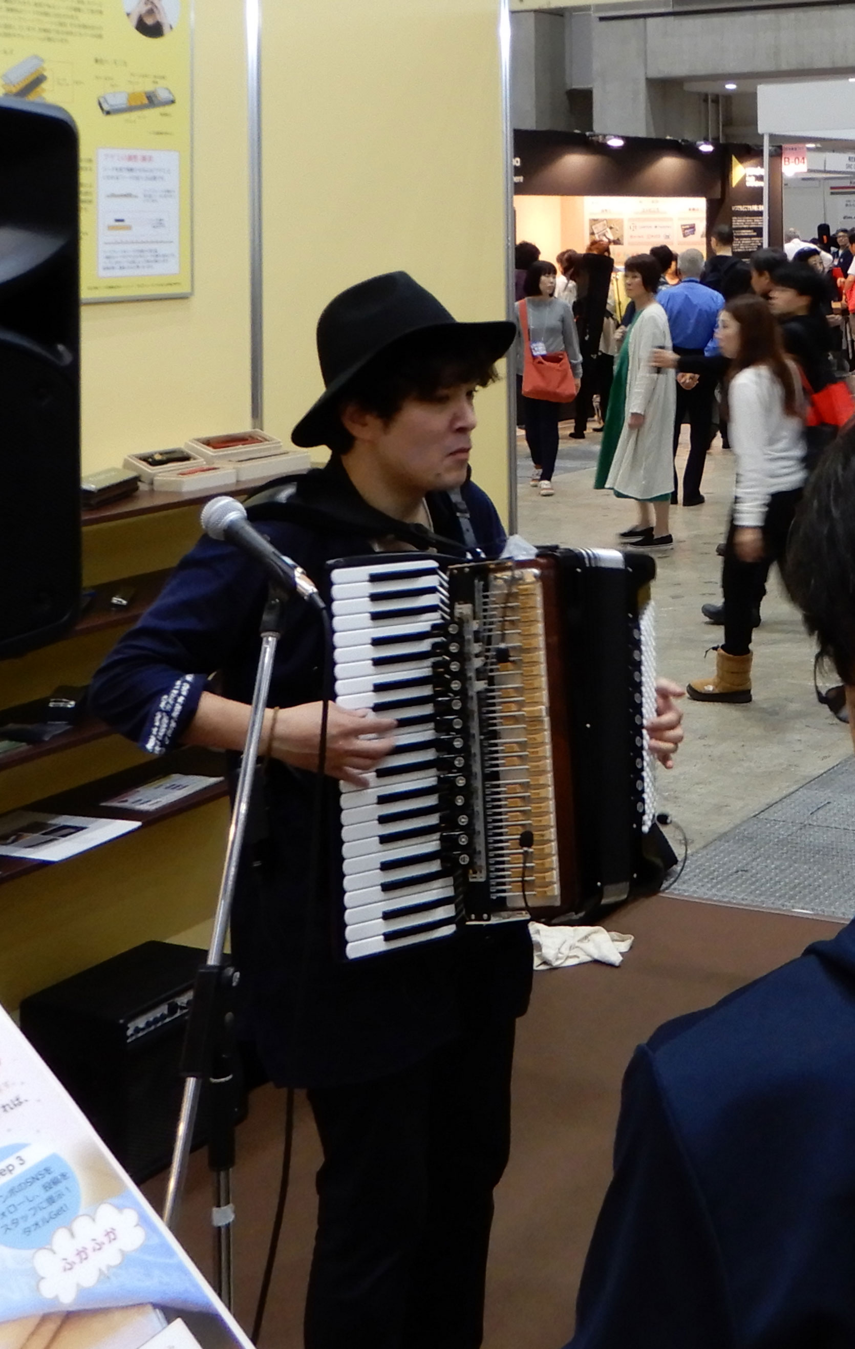 Demonstration-performance by accordionist Kotaro HATA.Note the front grill is taken away in order to make sounds sharper. This photo was taken at A-04 exhibition booth of Musical Instruments Fair Japan 2018 i.e. Gakki Fair 2018, held in Tokyo Big Sight.